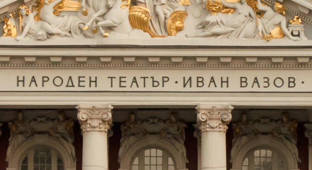 Detail of the architrave of The National Theatre in Sofia, Bulgaria.